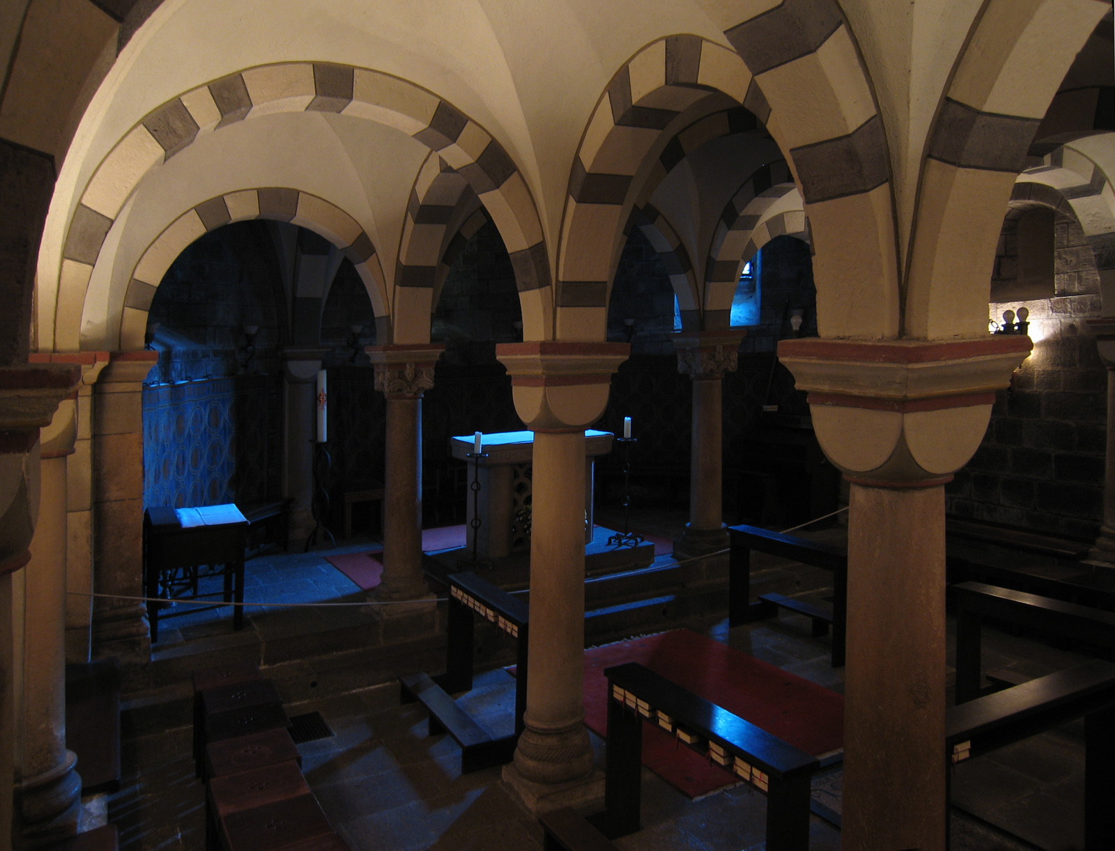 Maria Laach Abbey, the crypt